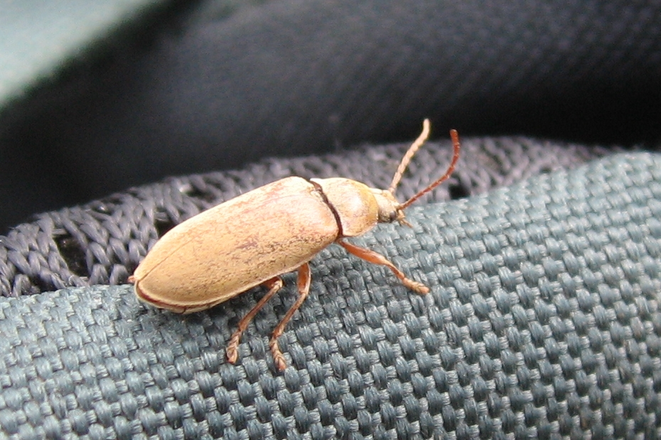 A beetle, assumed to be of the species Dascillus cervinus (family Dascillidae), resting on a rucksack. Photograph taken near the village of Braithwaite, Cumbria, UK.